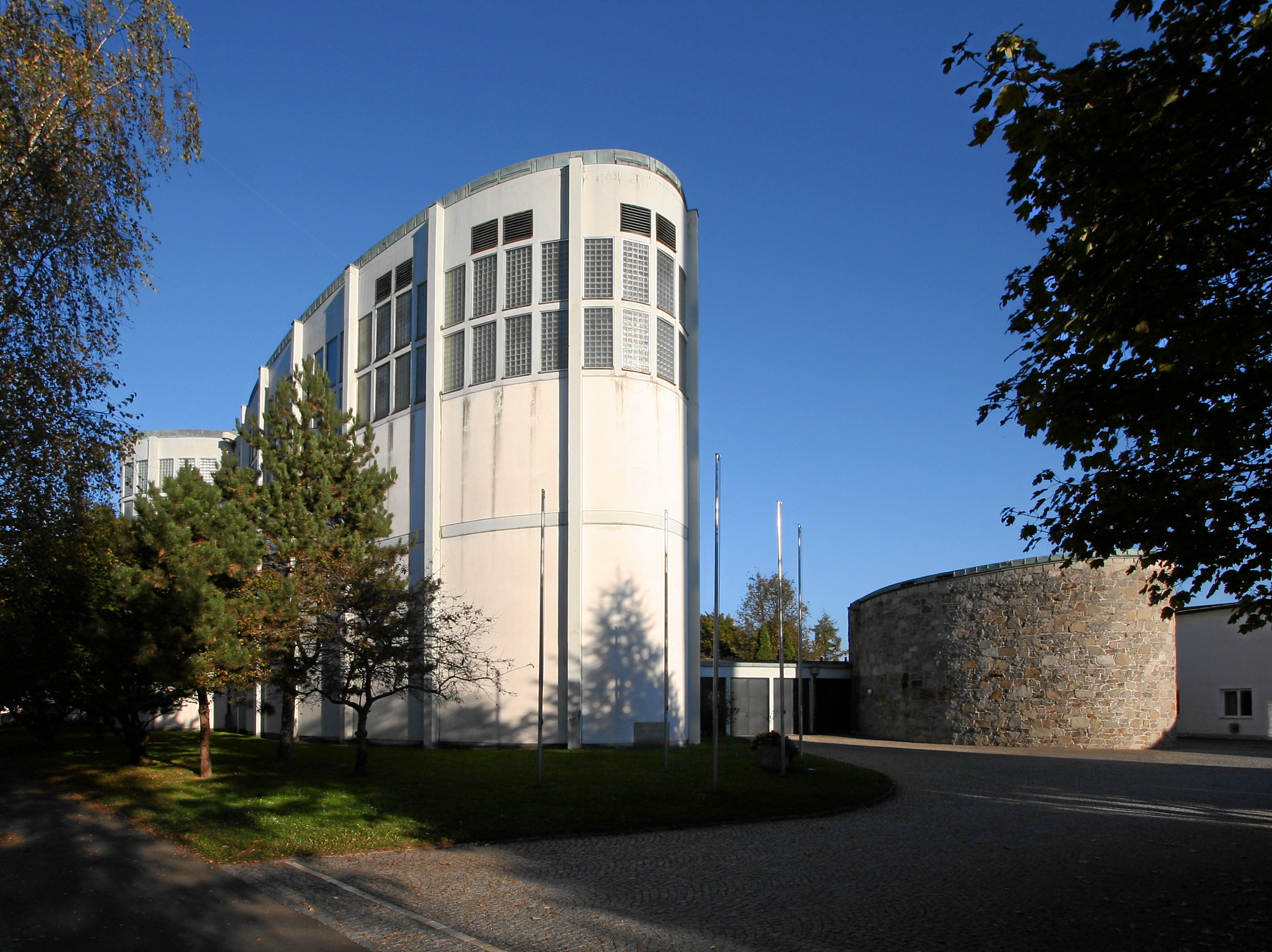 Church Sankt Theresia in Linz Keferfeld, Austria